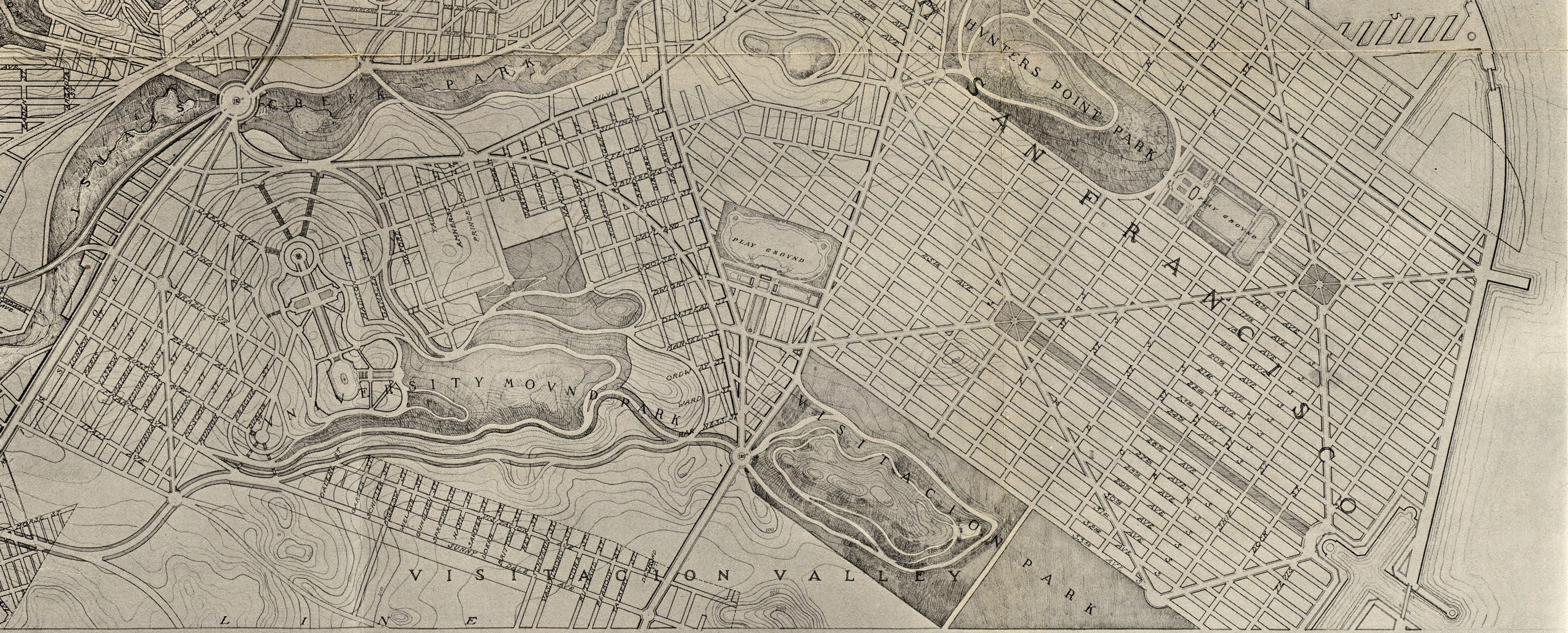 Burnham's plan for the southeastern corner of San Francisco, showing the proposed Hunters Point Park, Islais Creek Park, University Mound Park, and Visitacion Park.